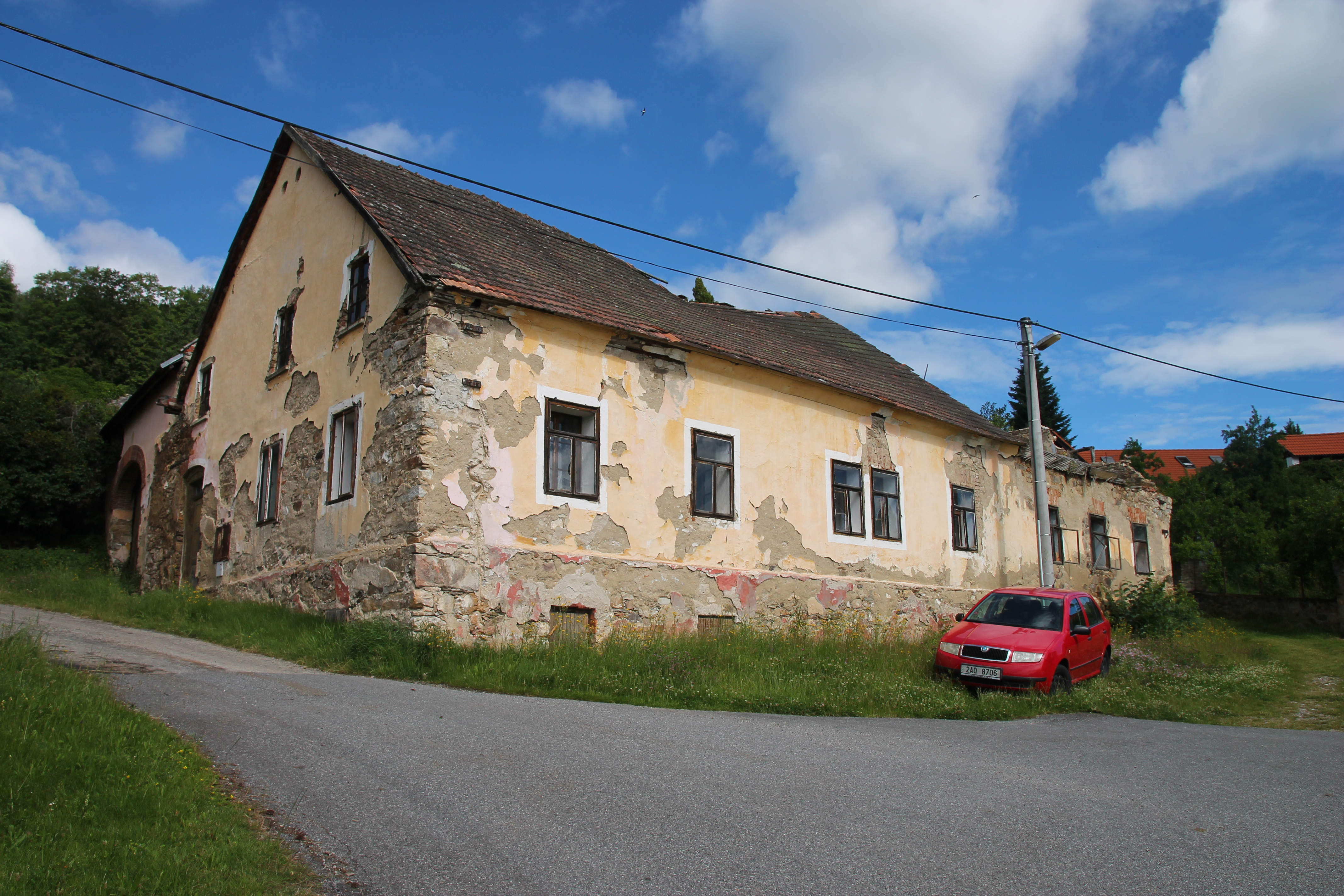 Vnarovy, Vimperk